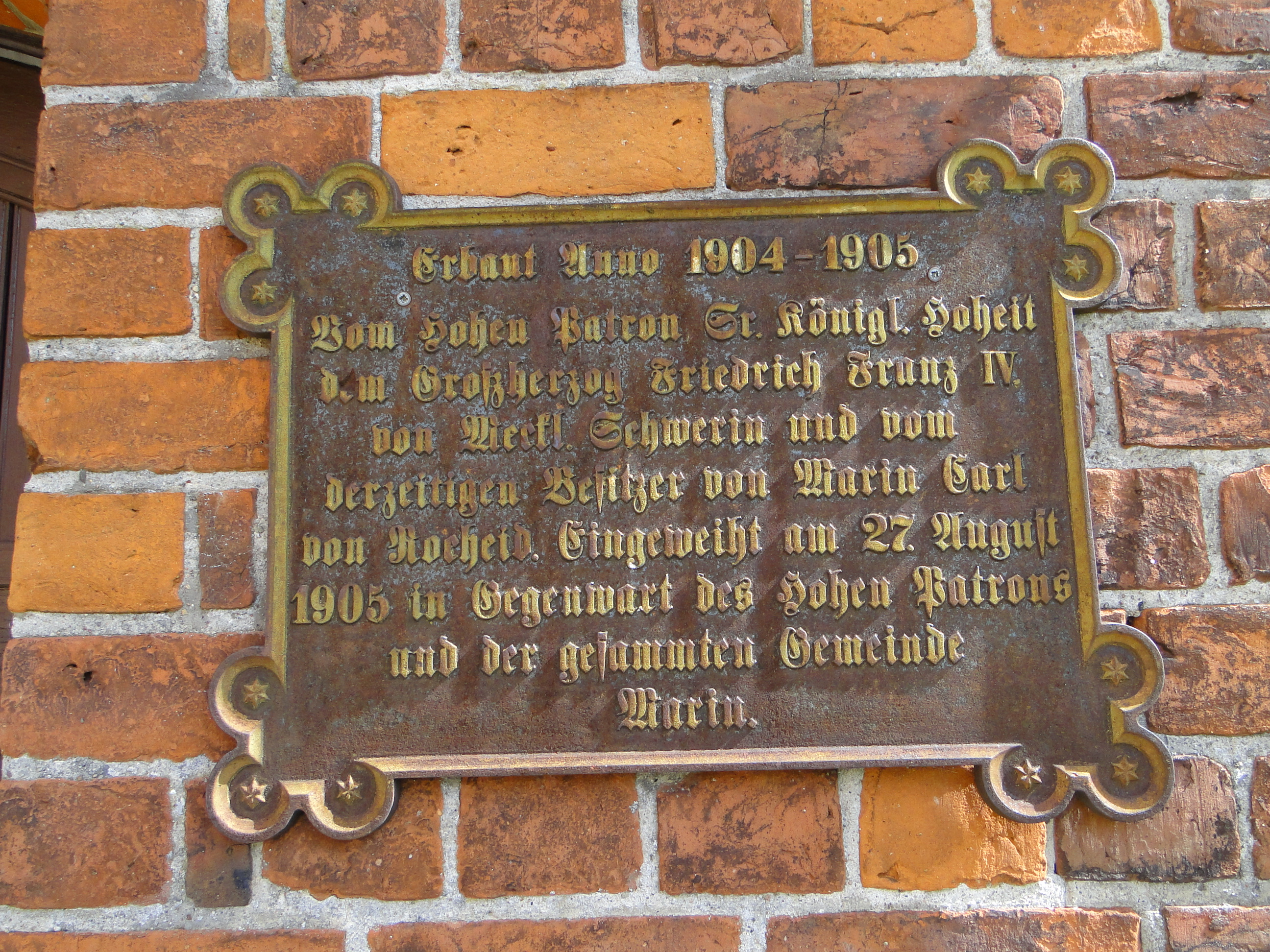 Church in Marihn, district Müritz, Mecklenburg-Vorpommern, Germany